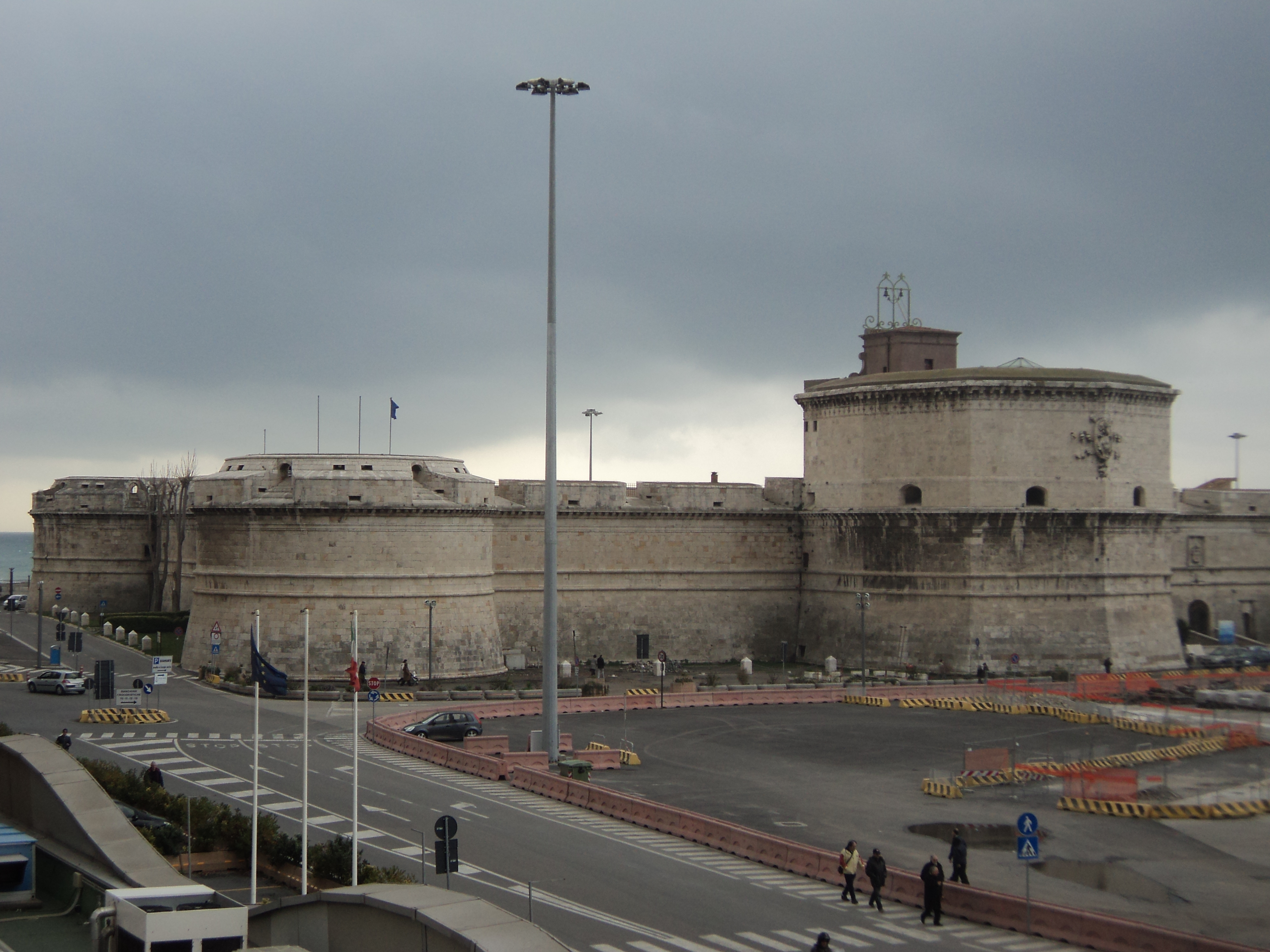 Forte Michelangelo. For more pictures